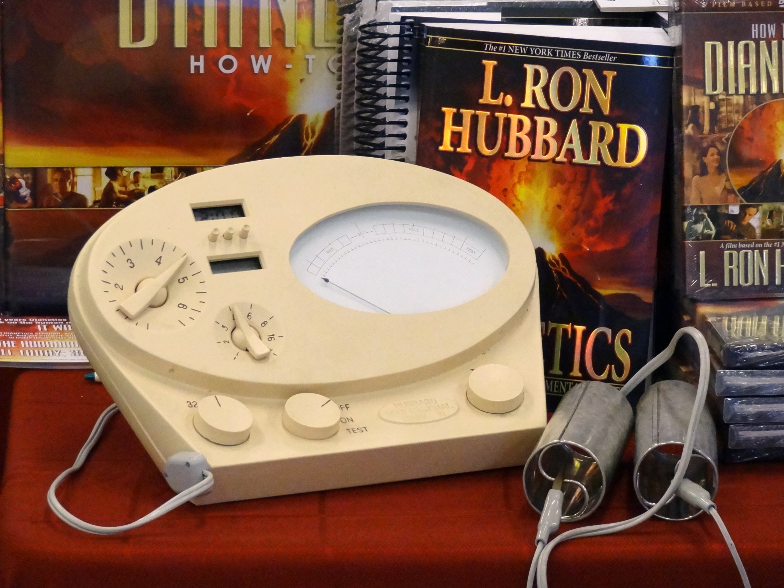 Scientology E-Meter (Mark VI) Uploaded by DJ Spiess